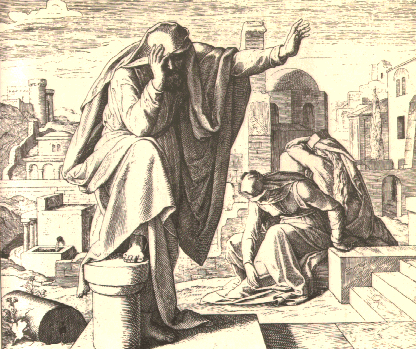 Woodcut for "Die Bibel in Bildern", 1860. Lamentations of Jeremiah